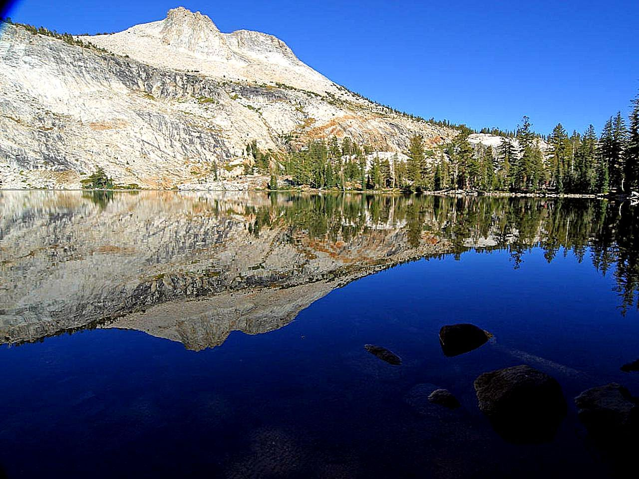 Image title: Mountain hoffmann peak Image from Public domain images website